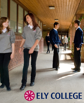 Image showing students at Ely College in the new uniform, from 2011